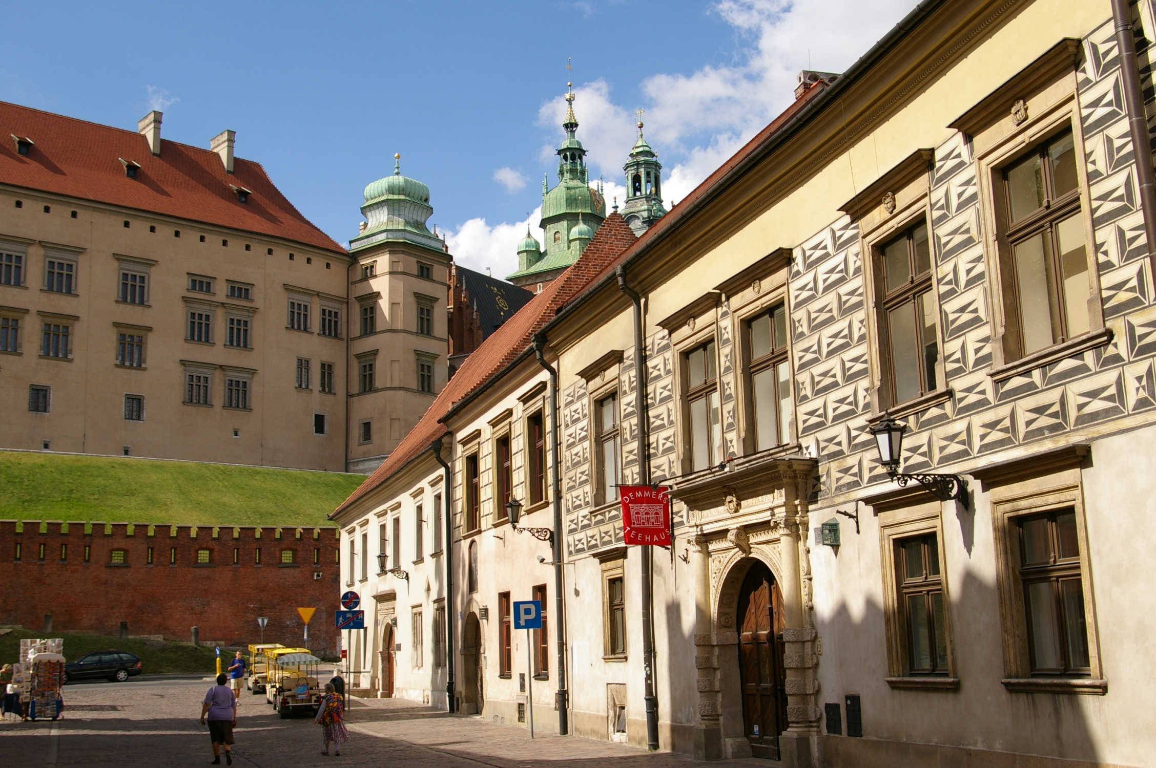 Kanonicza Street in Kraków